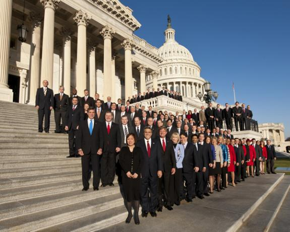 112th Congress Freshmen Class on the steps of the United States Capitol Building